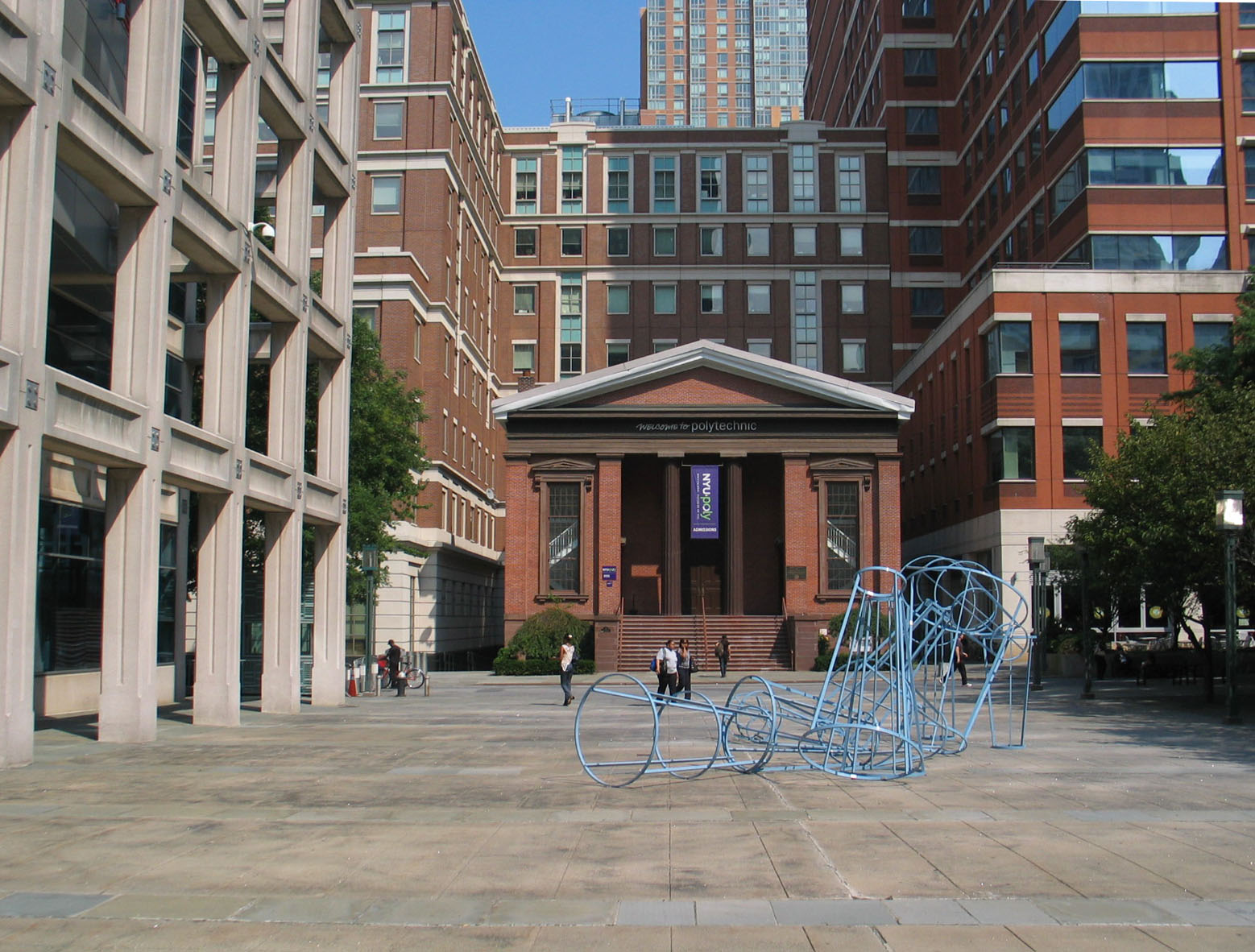 Authentic Wunsch Hall inscribed of Polytechnic School of NYU is ideally inscribed into the modern architecture at Metro Tech Center, which also includes other Polytechnic buildings such as Dibner LIbrary.